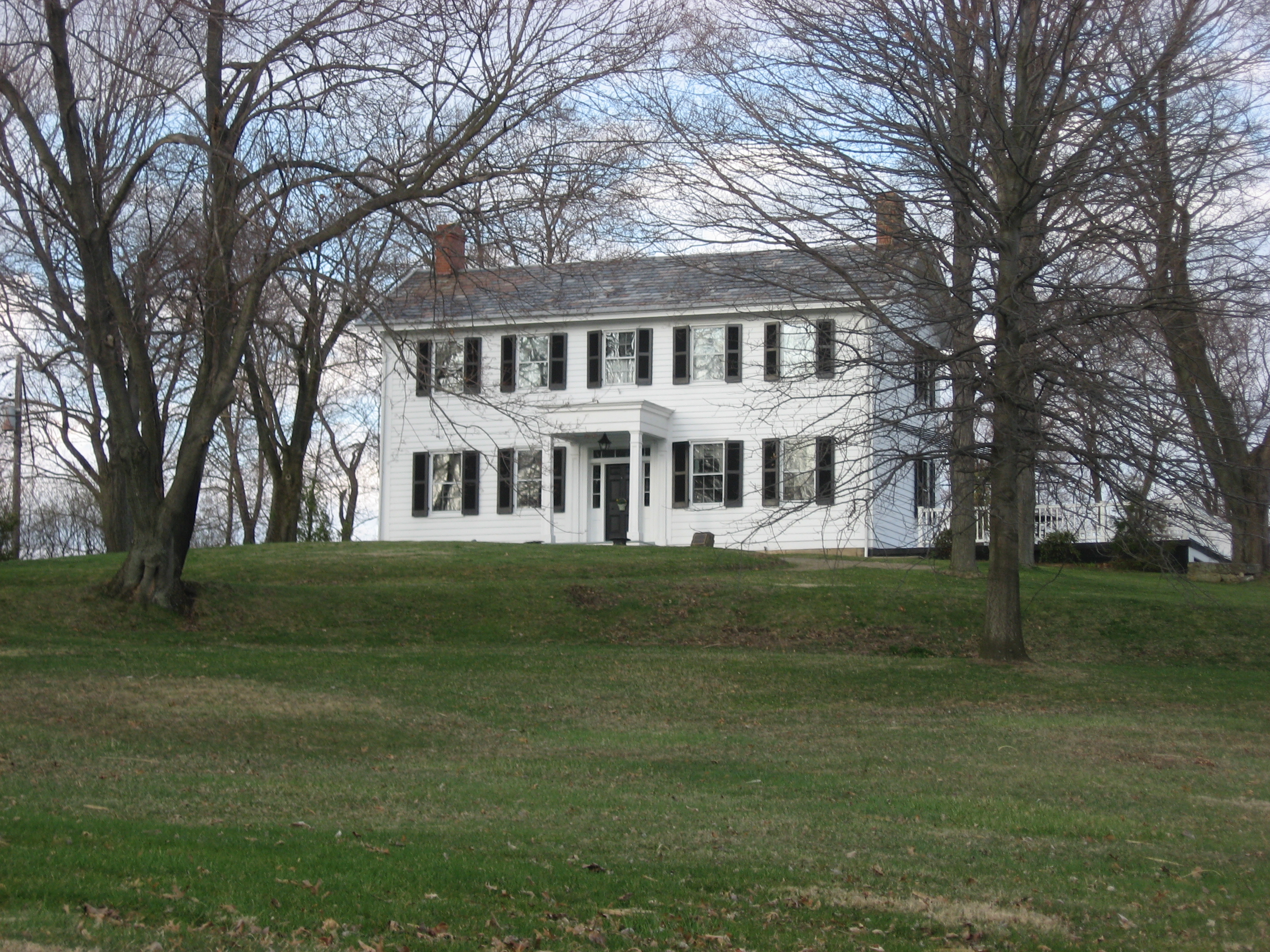 Front of the James Beach Clow House, a historic house and former station on the Underground Railroad located along Chapel Drive at the Anne Street intersection in North Sewickley Township, Beaver County, Pennsylvania, United States. Built in 1830, the Greek Revival house is listed on the National Register of Historic Places.